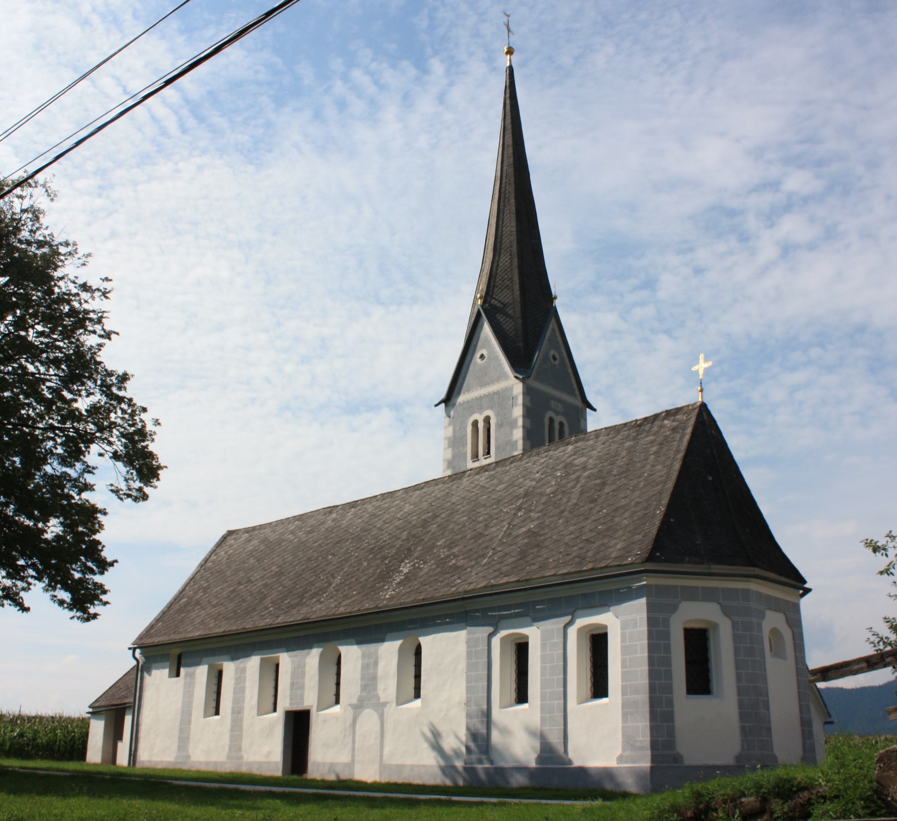 Church of Saint Lucia Locality: St Luzia Community:Bleiburg